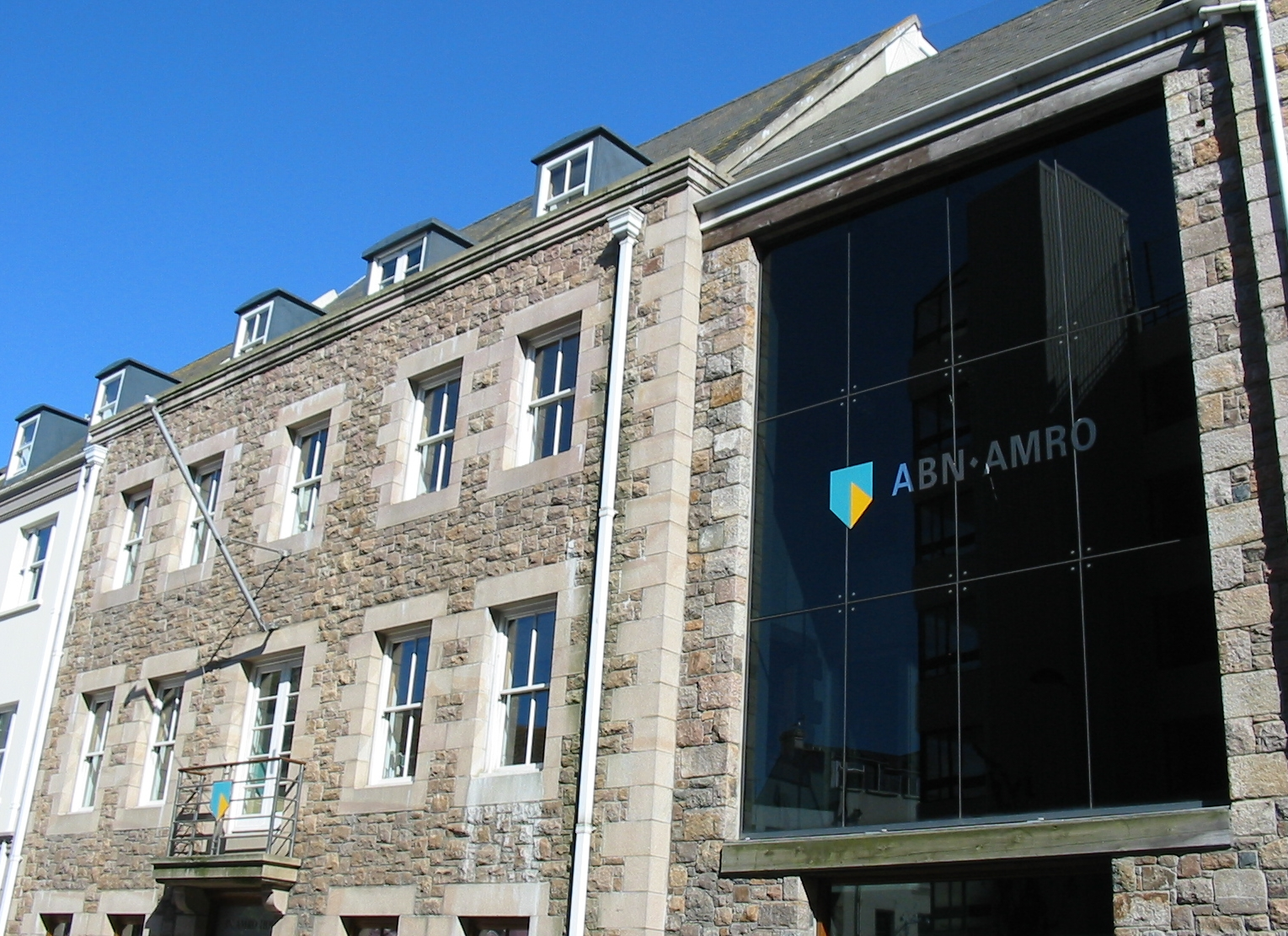 Jersey